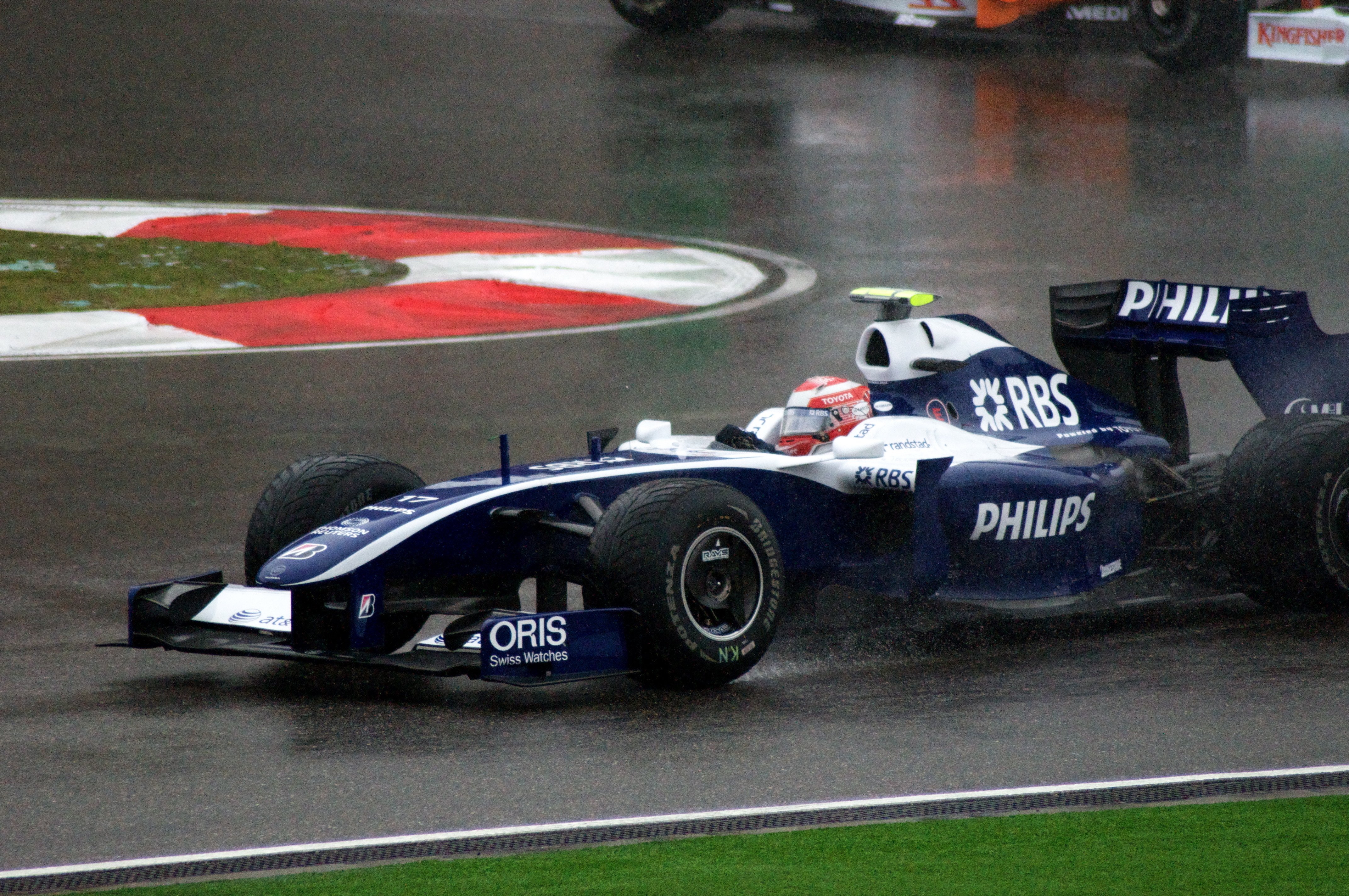 Kazuki Nakajima driving for WilliamsF1 at the 2009 Chinese Grand Prix.